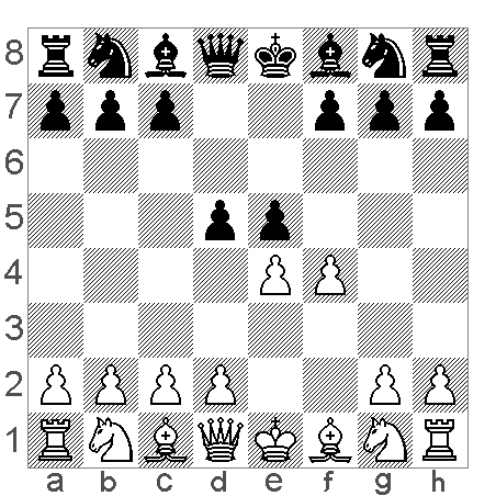 chess diagram Falkbeer counter gambit Source: CBlight + my processing